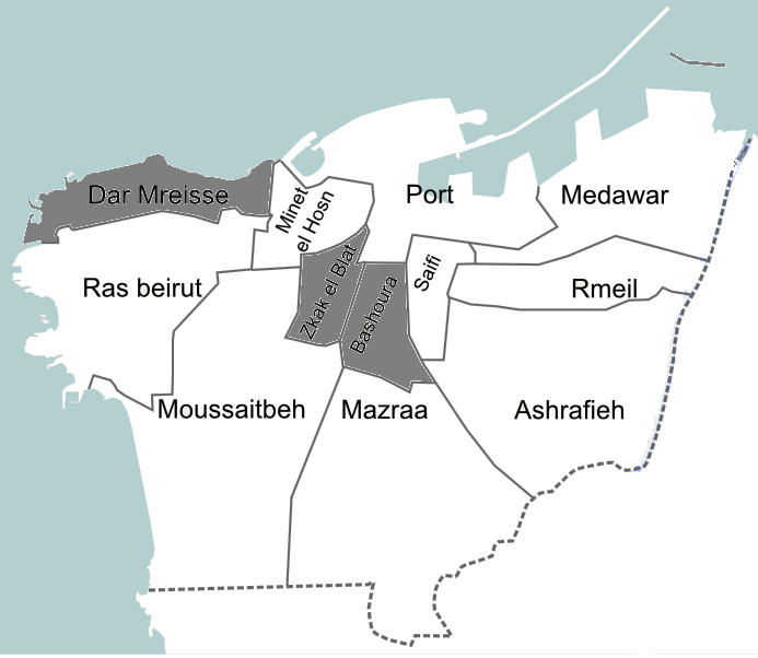 Beirut II electoral district 1960-1972. Based on File:Beirut Districts.png